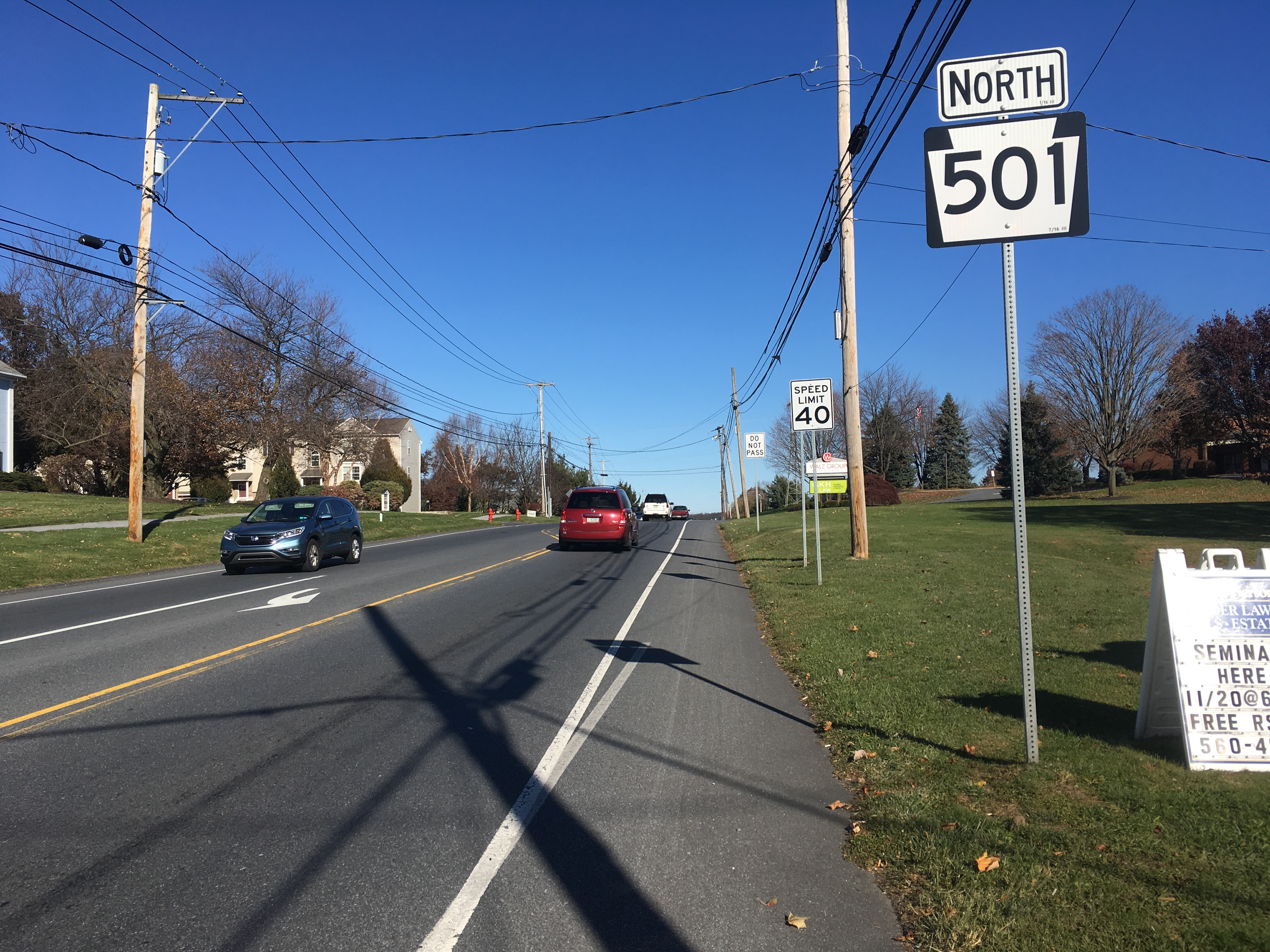 Northbound Pennsylvania Route 501 (Lititz Pike) past the intersection with Pennsylvania Route 722 (Oregon Road) in Neffsville, Pennsylvania